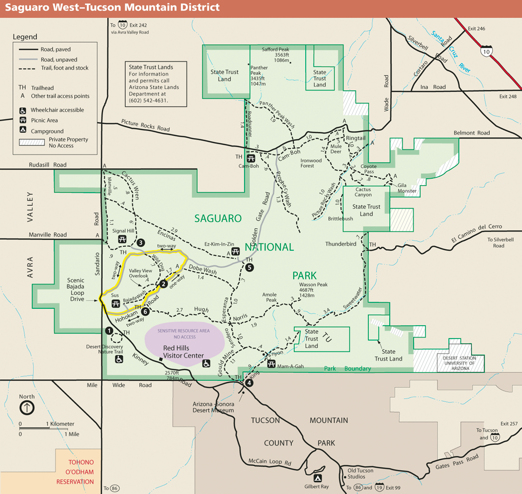 Map of the Western area of Saguaro National Park, Arizona, United States.